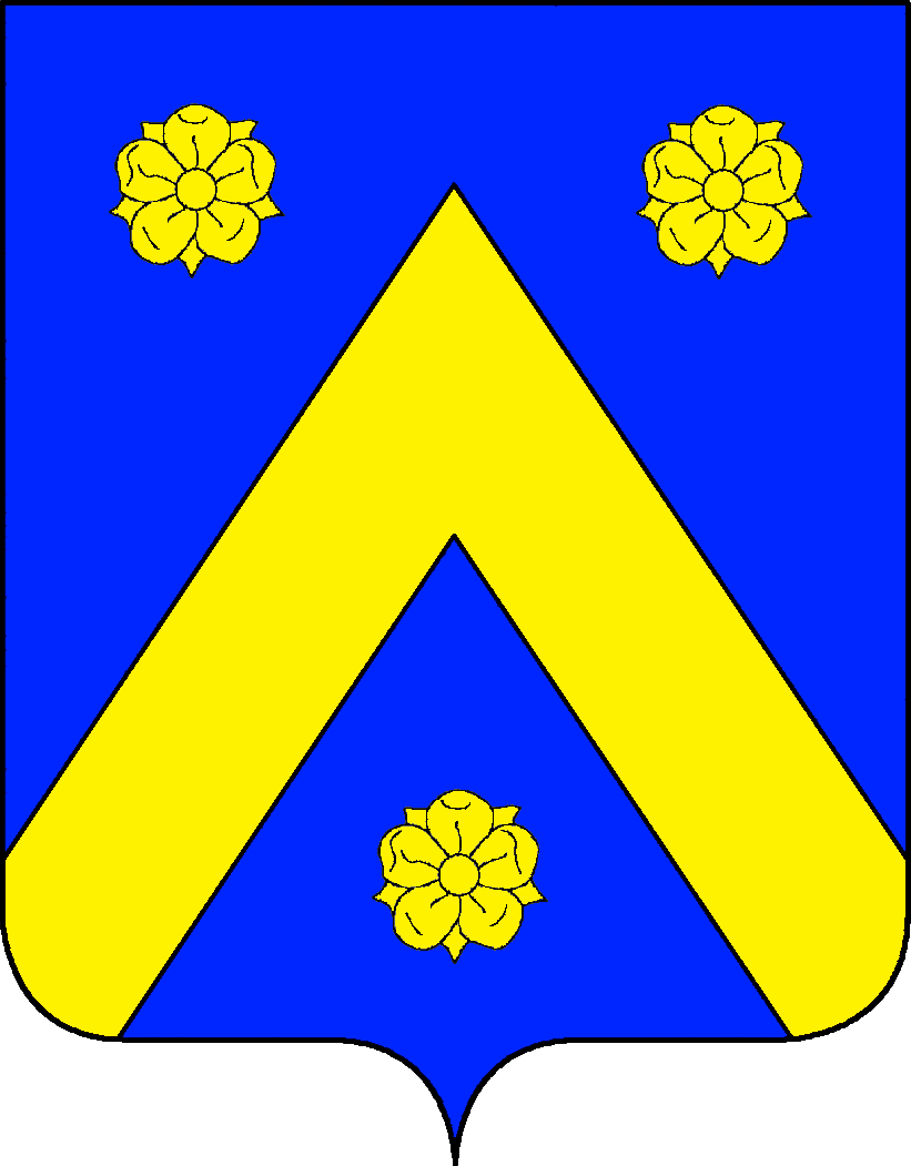 Bembo Family coat of arms